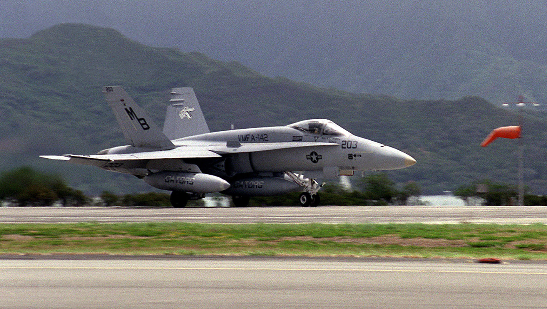 A McDonnell Douglas F/A-18A+ Hornet from U.S. Marine Corps Reserve Fighter Attack Squadron 142 (VMFA-142) "Flying Gators" takes off from Marine Corps Air Station Kaneohe Bay, Oahu, Hawaii (USA), for a mission during exercise RIMPAC '98 on 1 August 1998.